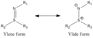 Resonance structures of sulfilimine